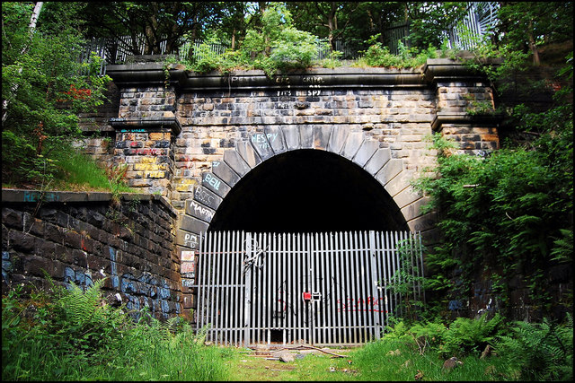 Thackley tunnel West portal I love these old railway tunnel portals when they're overgrown with ferns and greenery. This setting is reminiscent of Jurassic park! Thackley West portal looked an impressive sight in the Summer sun. The last train to run through here was 41 years ago. The silence is shattered occasionally when a train emerges from the next door tunnel. See many more Thackley tunnel pictures here